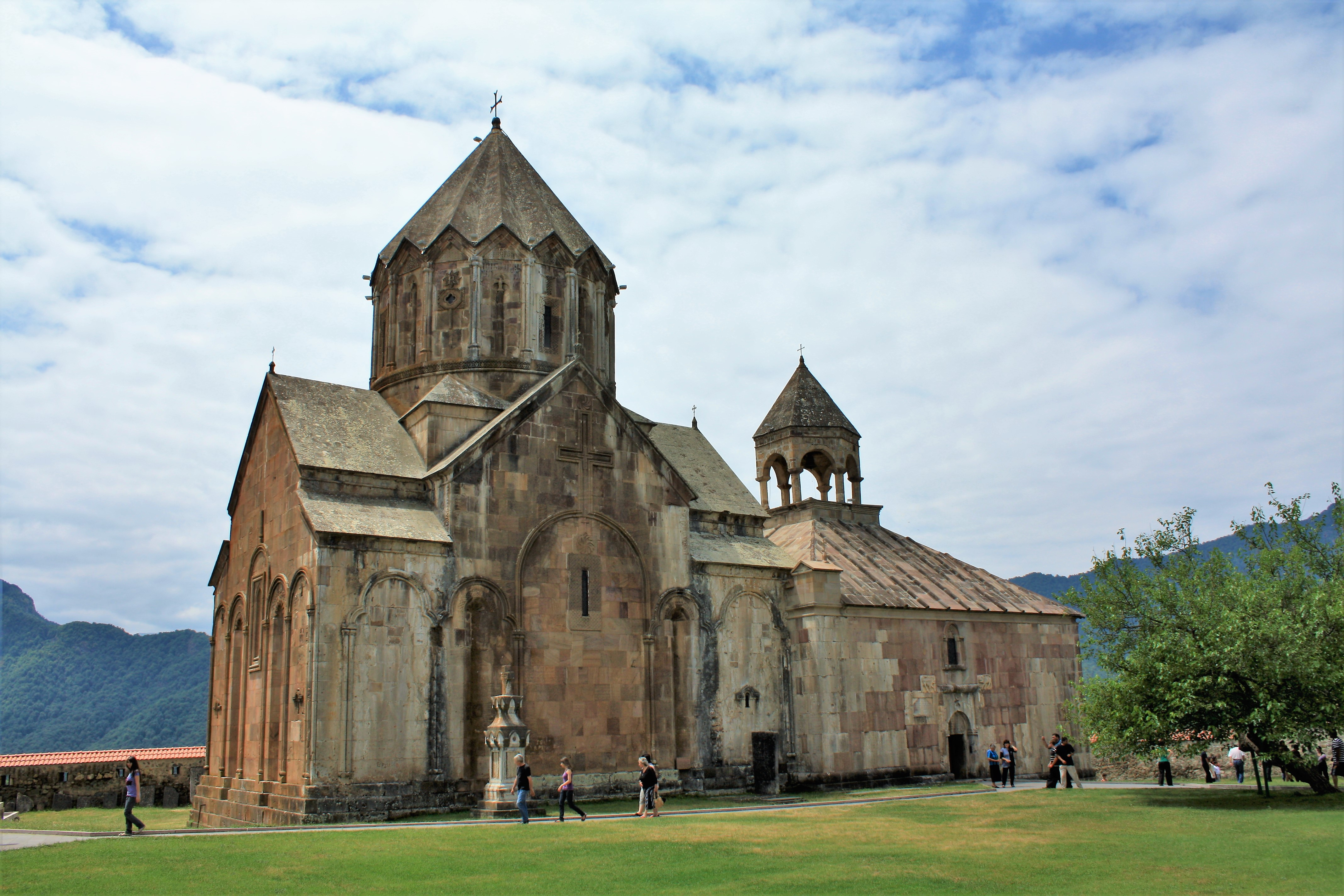 View of Gandzasar monastery, Nagorno-Karabakh